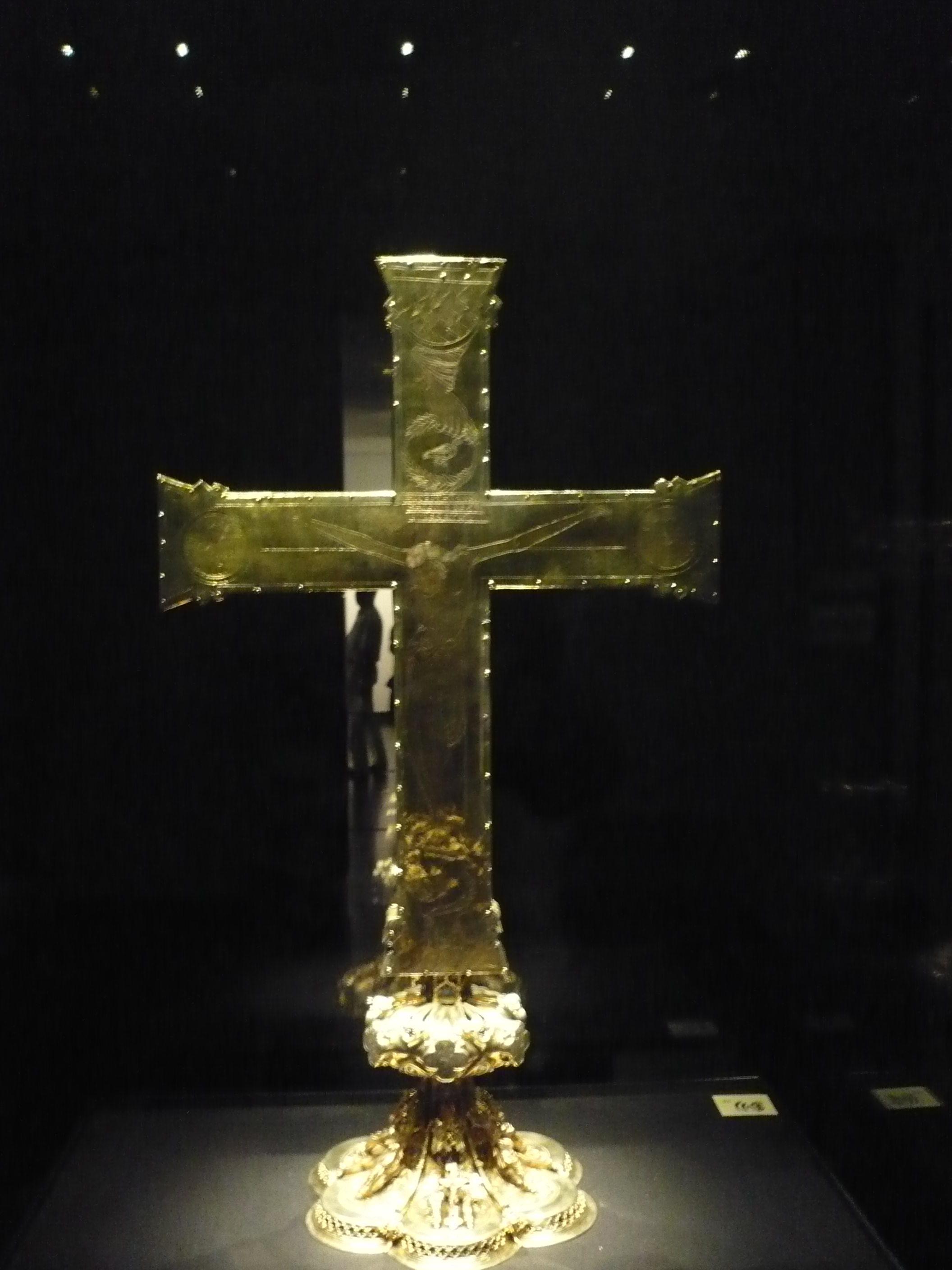 Lothar's Cross - front side with Crucifixion